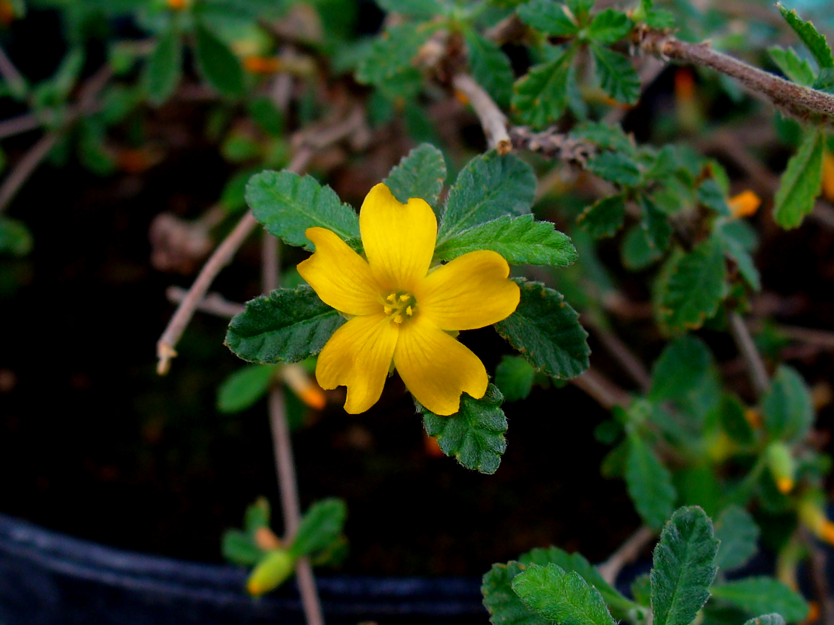 Turnera diffusa var. aphrodisiaca, Turneraceae, Damiana, flower.